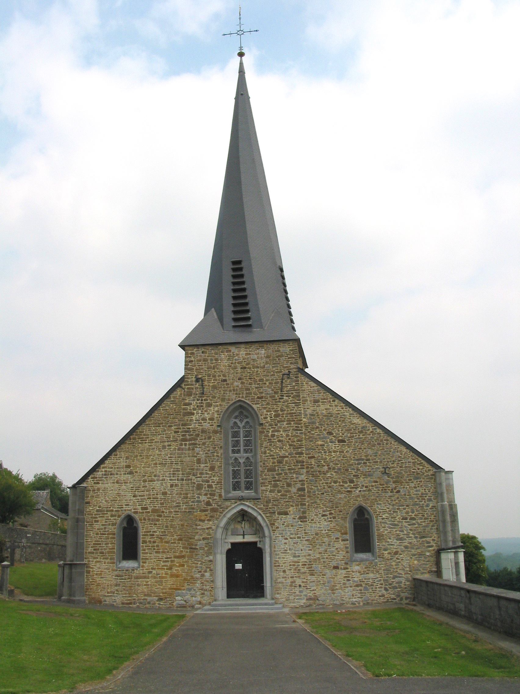 Grand-Marchin (Belgium), the Our Lady church (XV-XVth century).